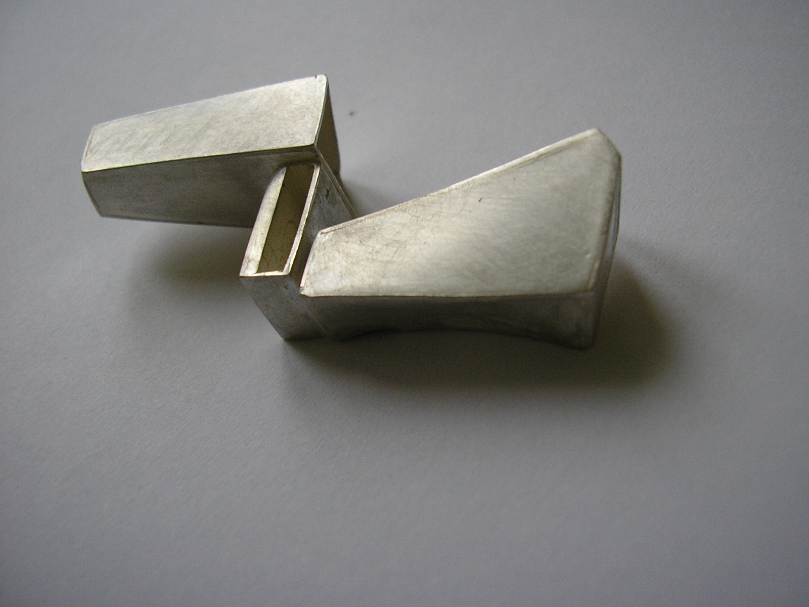 Silver Brooch "Anum" ("Vessel" in Estonian) made by Kadi Kübarsepp 2010.